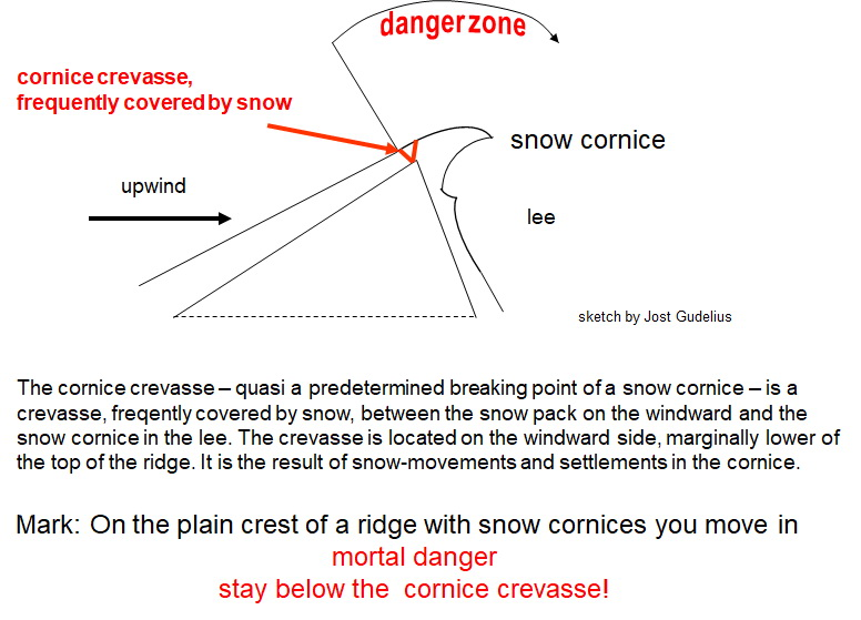 Danger zone on a snow cornice